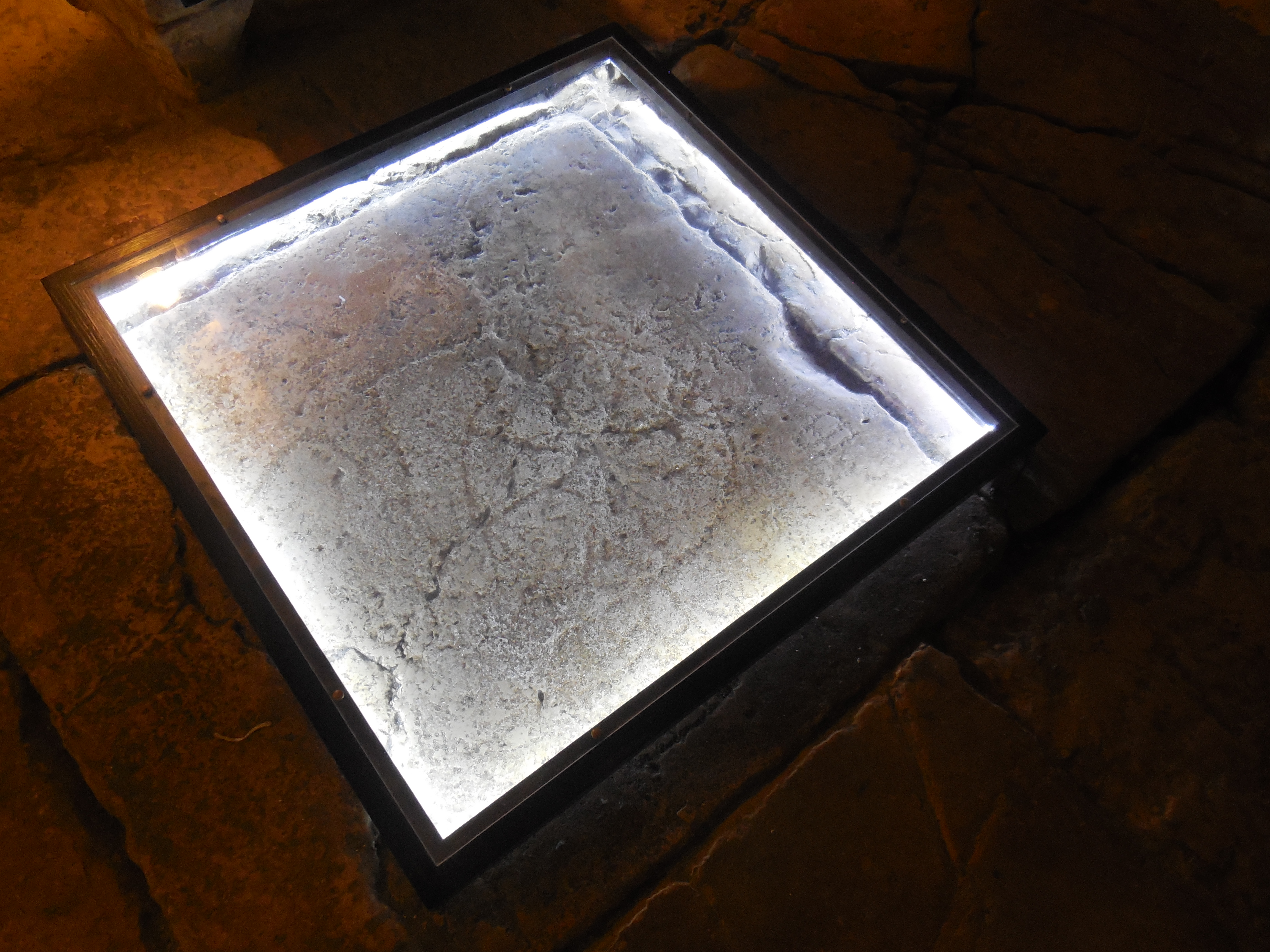 Lithostrotos. Game of King. Jerusalem. Israel